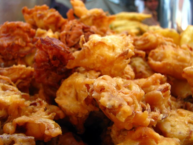 Pakoras